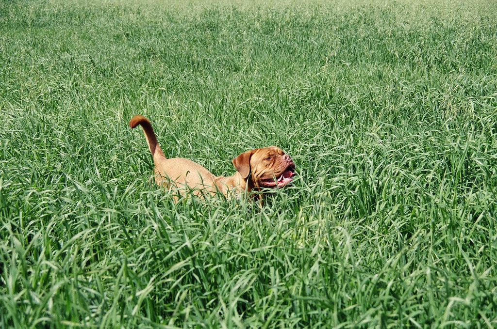 Picture taken by אסף ב.ד